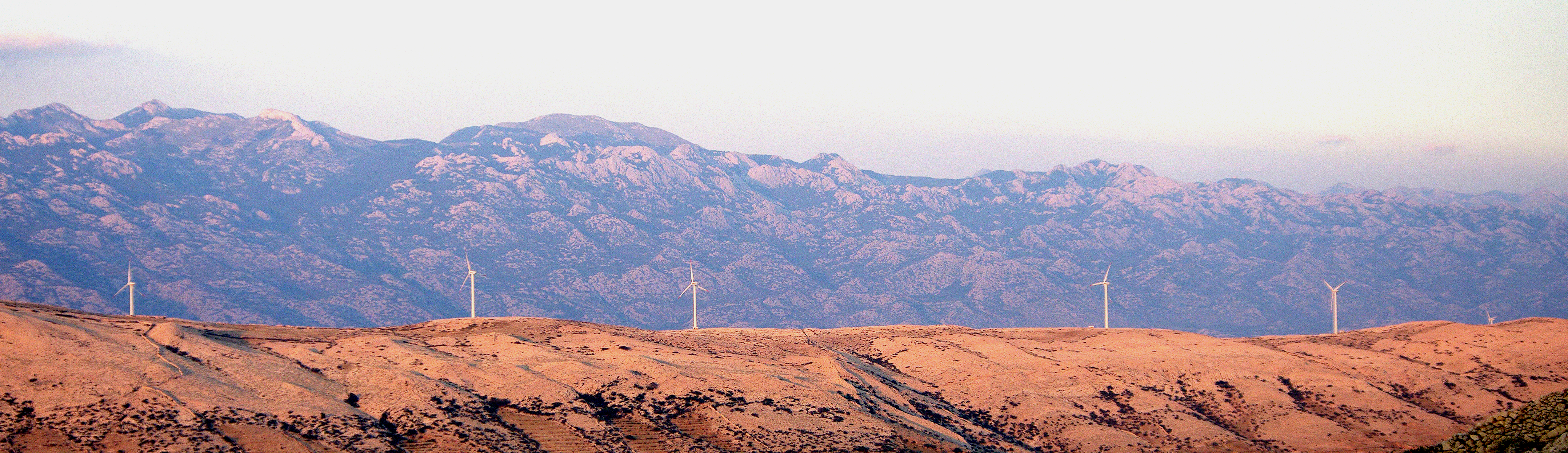 Wind farm in Pag, Croatia